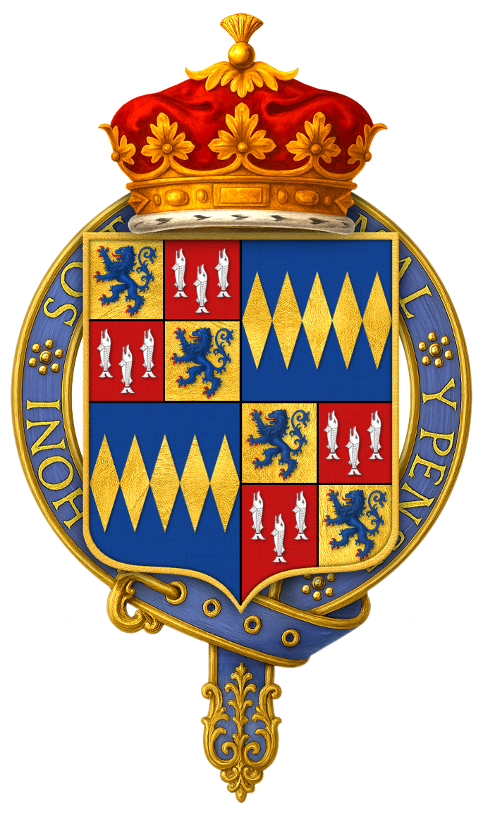 Coat of Arms of Hugh Algernon Percy, 10th Duke of Northumberland, KG, GCVO, PC, TD, FRS